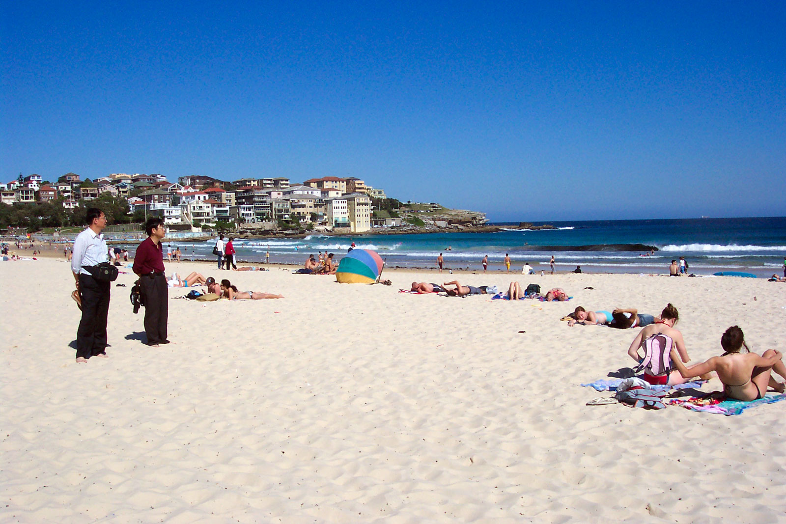 Bondi Beach, New South Wales Taken by Enoch Lau on 26 November 2004. As a courtesy, please let me know if you alter this image or this image description page. Original filename was 100_3743.JPG.